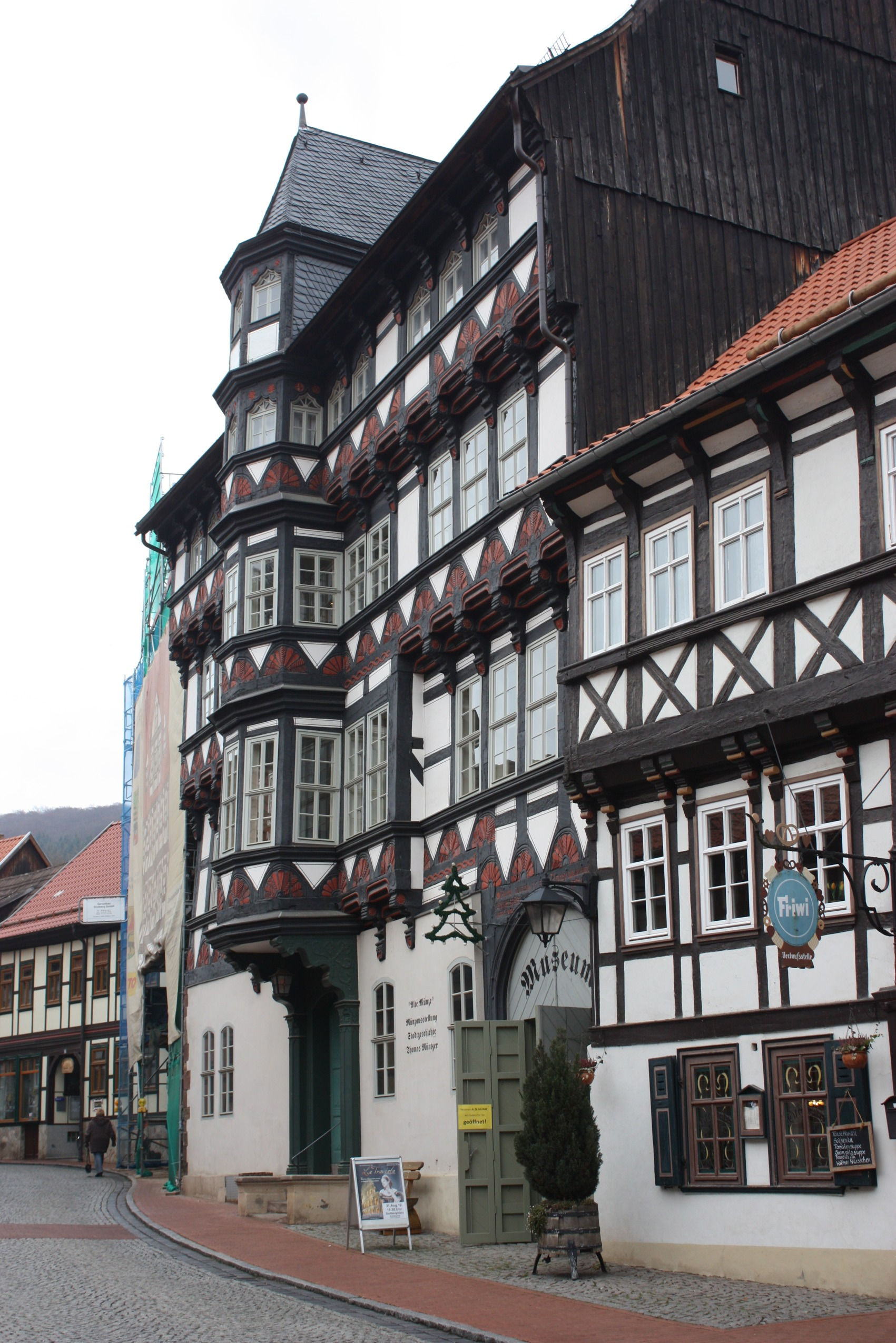 Stolberg (Harz), the museum "Alte Münze"